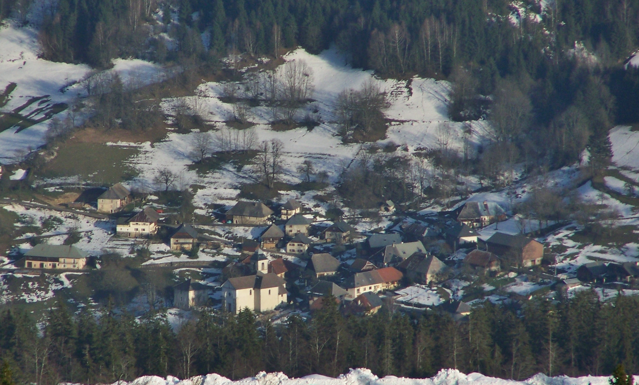 Sight in winter of village of Aillon-le-Vieux from mont Margériaz mount, in Savoie, France.